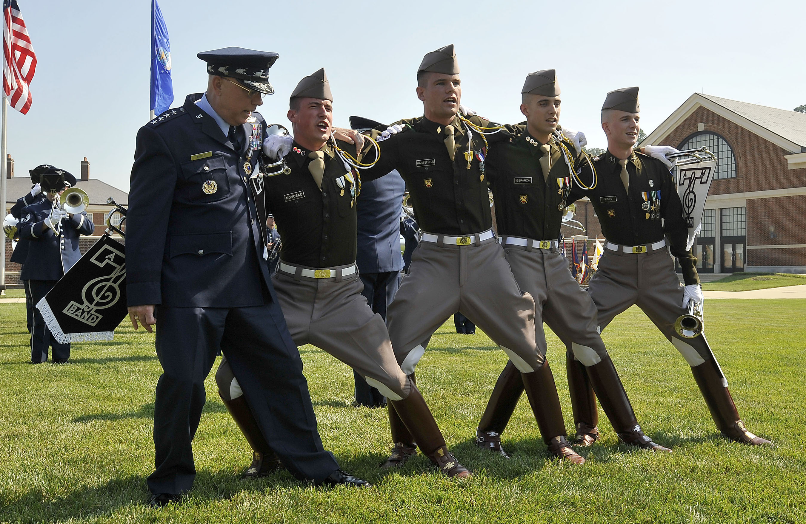 Air Force Chief of Staff Gen. T. Michael Moseley joins cadets from his alma mater, Texas A&M University, during his retirement ceremony July 11 at Bolling Air Force Base, D.C. (U.S. Air Force photo/Scott M. Ash)